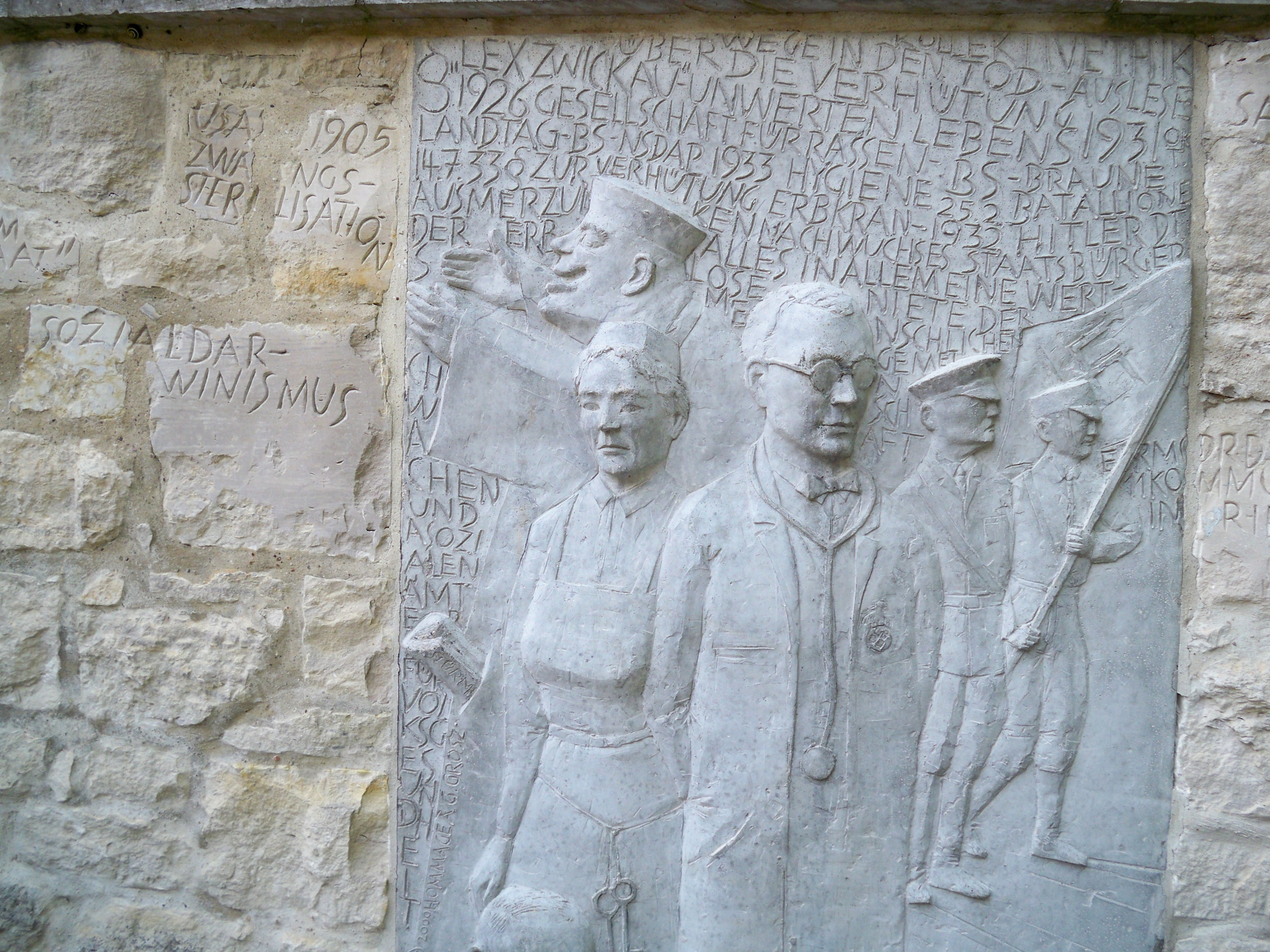 Königslutter am Elm, Lower Saxony, psychiatric hospital, monument for disabled people killed during T4 action by the Nazis